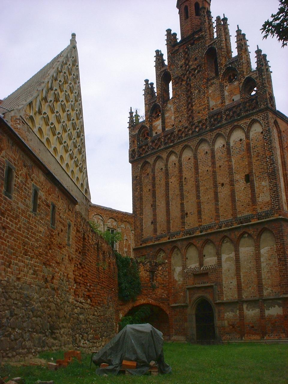 Gothic West-façade of the Cloister Church of St. Mary on right (cloister's south bldg.) — at the Kloster Marienstern (Marienstern Monastery). A 13th century German Brick Gothic complex, in Mühlberg on Elbe, Brandenburg, northeast Germany. With southern gable of the Abess' House on left (cloister courtyard's western building).